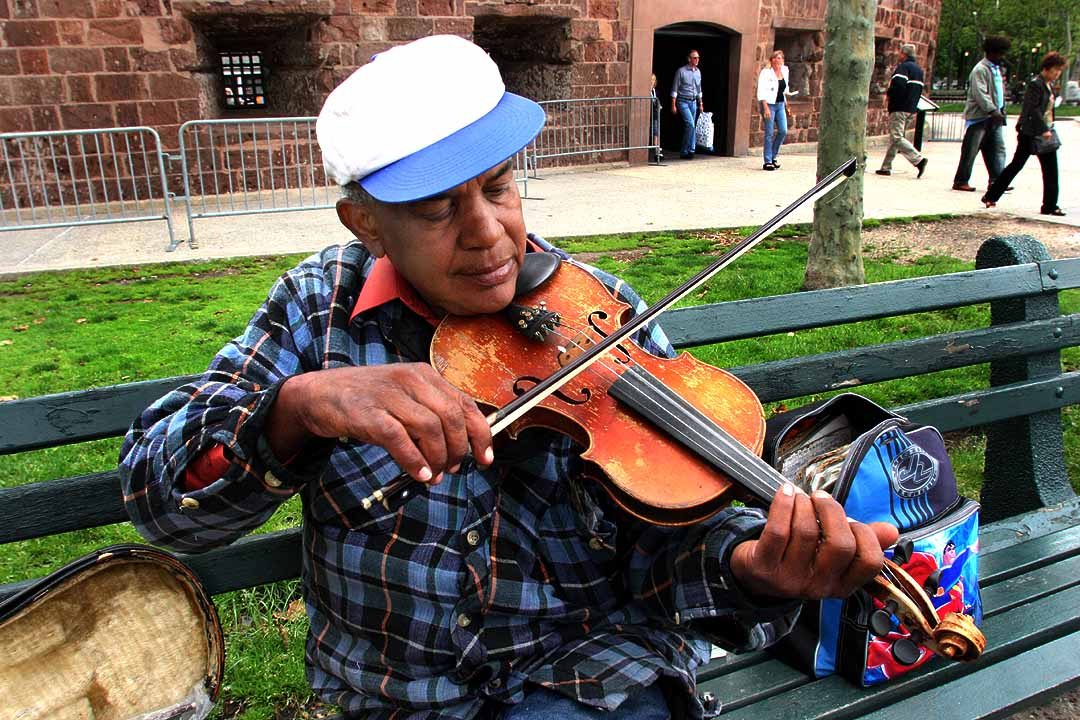 Americana: Streets of New York